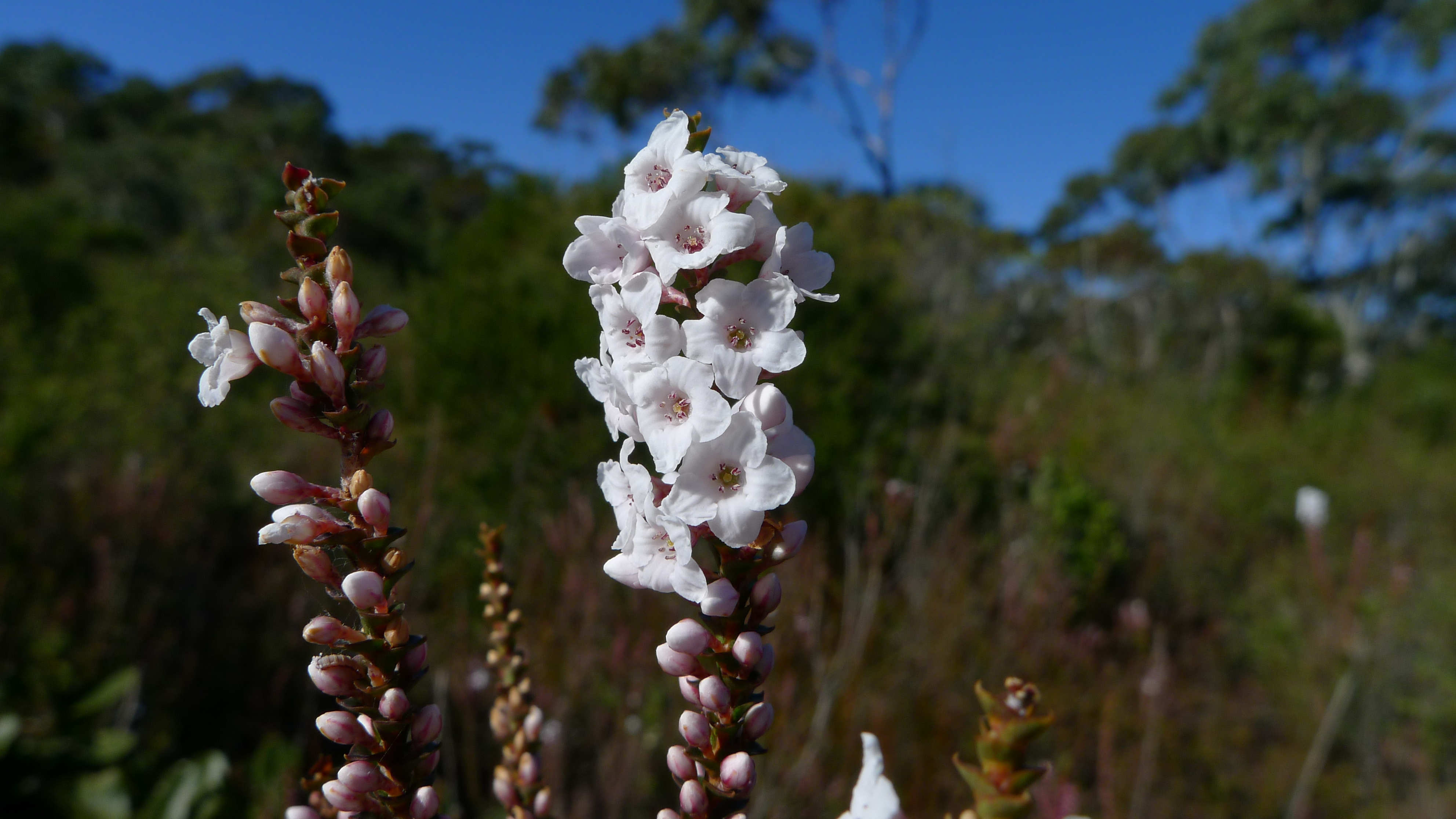 Coral Heath, Epacris microphylla. Royal National Park, NSW Australia, July 2011.